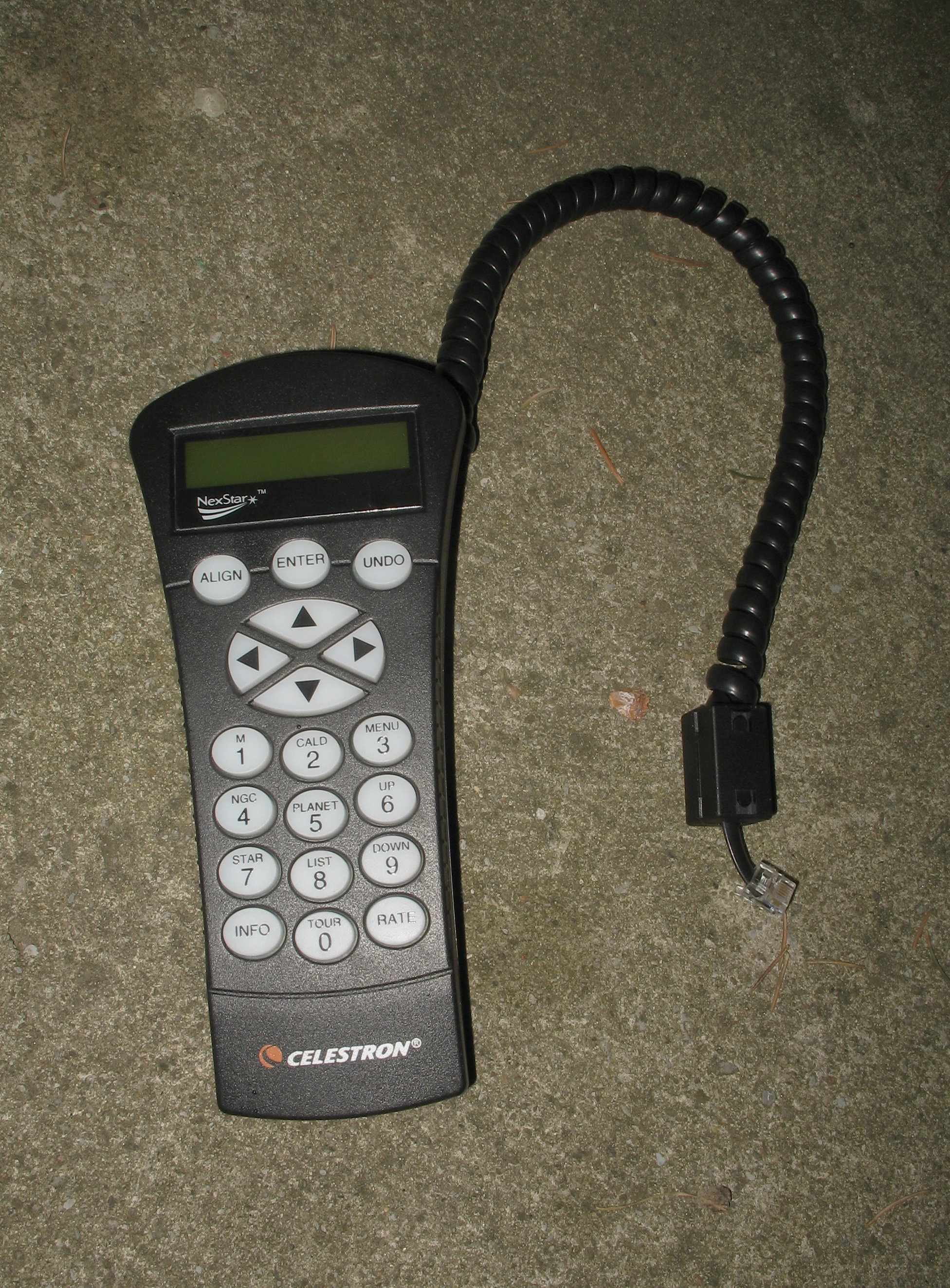 The hand control of this GoTo telescope. The four arrow buttons are used to move the telescope. The keys 1, 2, 4, 5, and 7, besides being used to input information, also allow the user to select which catalogue to choose an object from. For example, M is short for Messier while NGC is short for New General Catalogue.